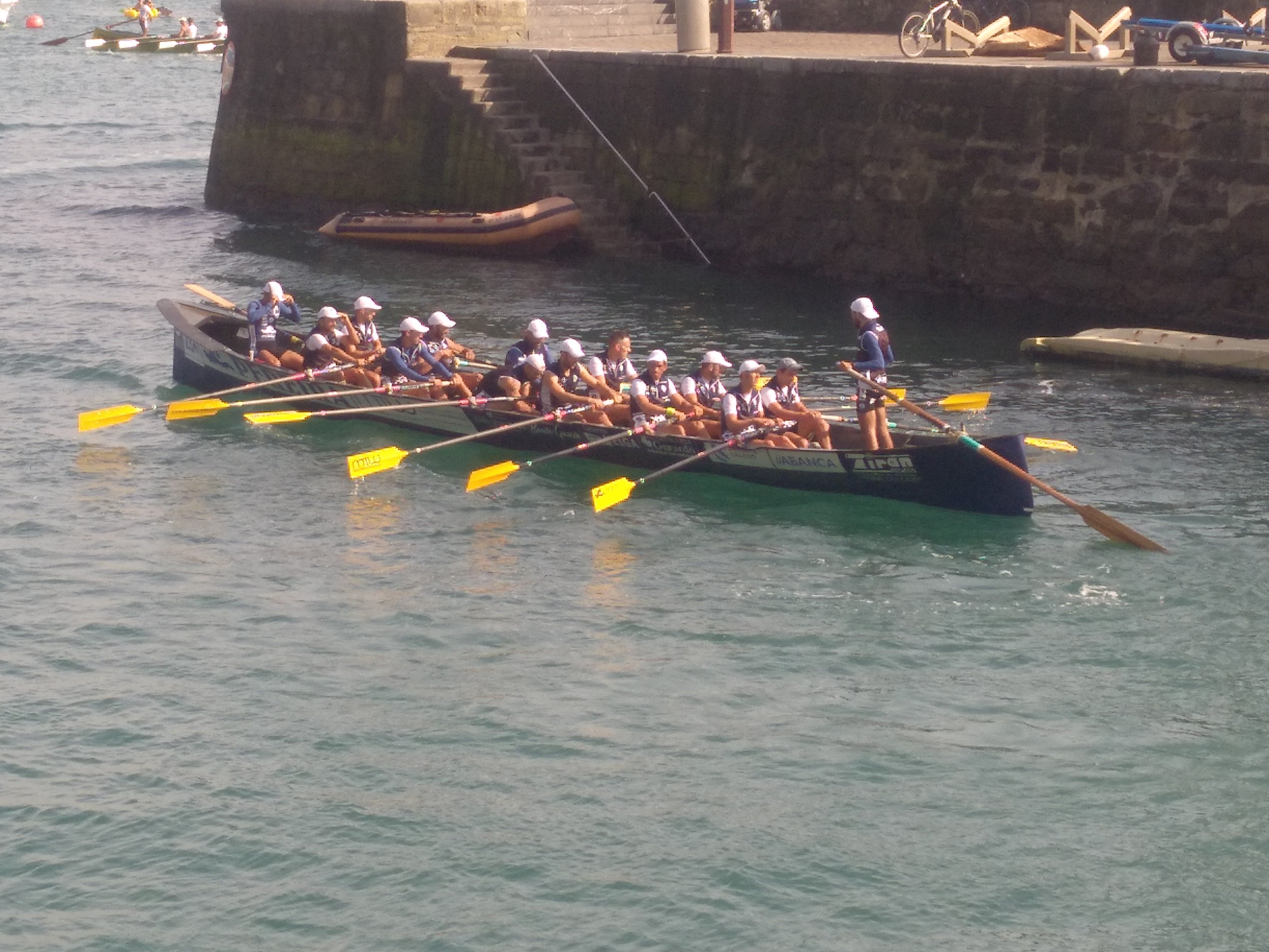 Sociedad Deportiva Tirán, Flag of La Concha, 2018